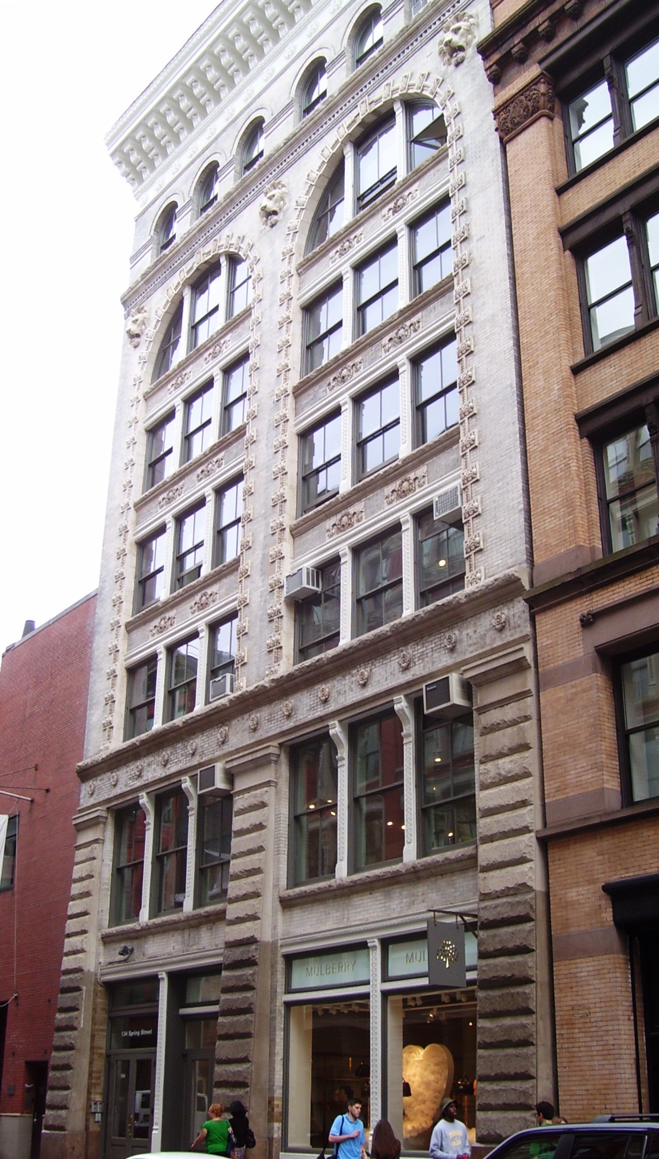 134 (134-136) Spring Street (also 80-84 Wooster Street) between Greene and Wooster Streets in the SoHo neighborhood of Manhattan, New York City was built in 1896-96 and was designed by Albert Wagner. It is located within the SoHo - Cast Iron Historic District. (Source: "NYCLPC SoHo - Cast-Iron Historic District Designation Report")